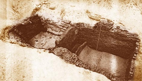 This image depict the assumed grave of Narmer in Umm el-Ka'ab. It is a picture that I made myself from another not-nowing source.